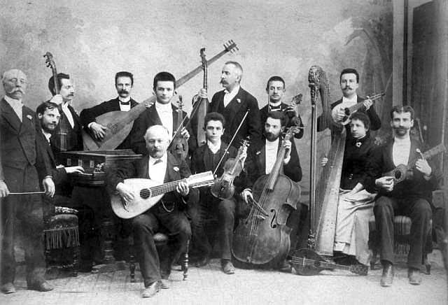 Musicians of the Academy of Santa Cecilia ("Accademia Nazionale di Santa Cecilia") posing before (?) the concert they gave at the Palazzo Doria Pamphili Palestrina room, Piazza Navona, Rome. The concert was promoted by the Company Musicale Romana, and the programme consisted of Italian music from 17th to 19th century. The ensemble's director, Alessandro Orsini, stands far left, and Giuseppe Branzoli, seated in the foreground, holds a mandolone.